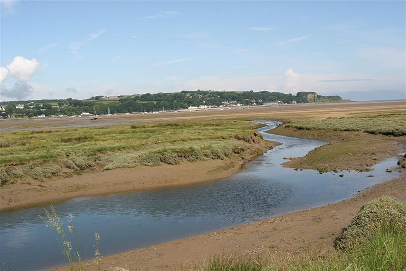 Afon Nodwydd, Red Wharf Bay, Anglesey